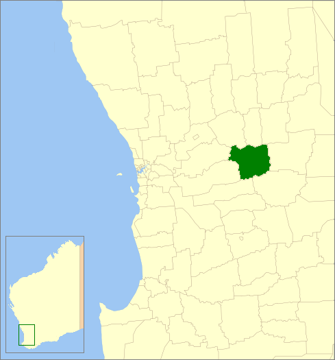 Description=Location of the Local Government Area in Western Australia